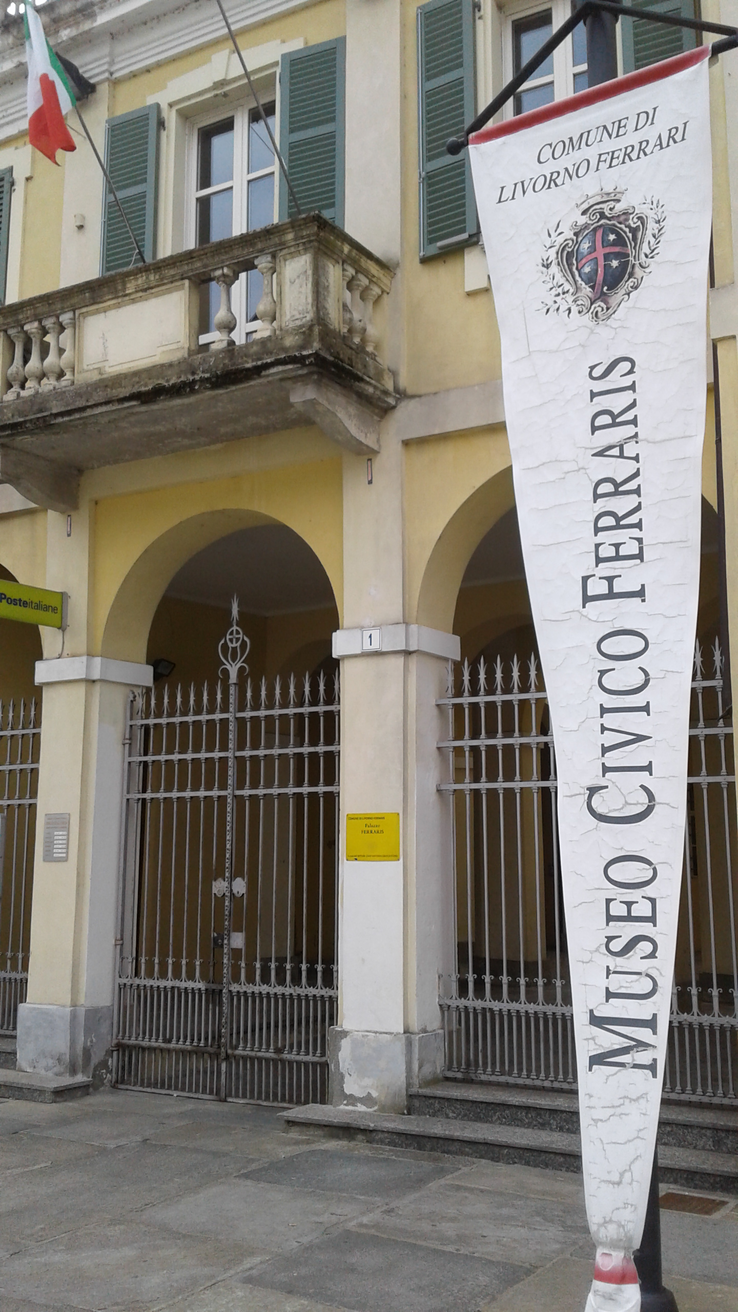 Entrance of the Galileo Ferraris Museum in Livorno Ferraris, Italy